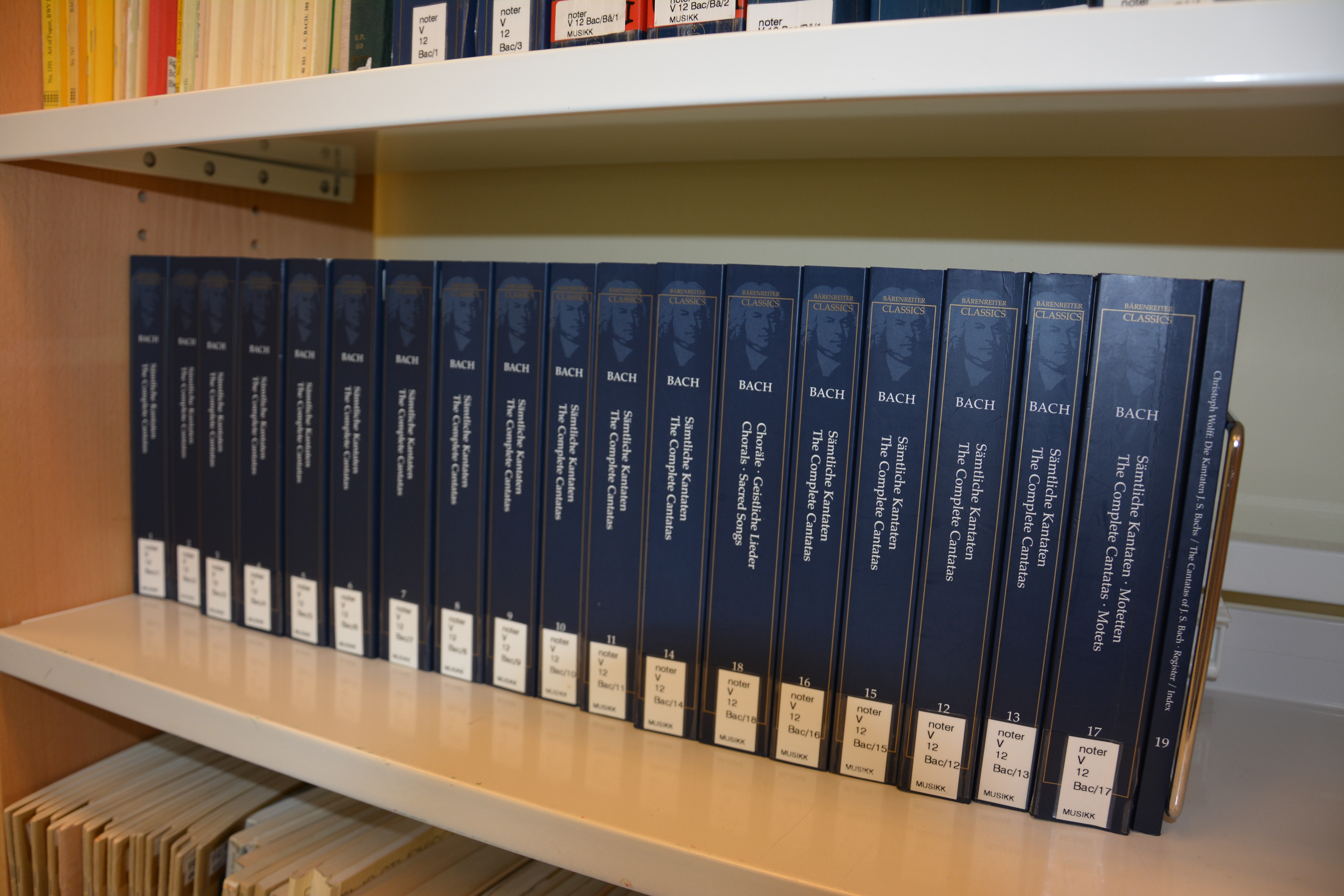 Glimt fra studiepartitursamlingen på Musikkbiblioteket